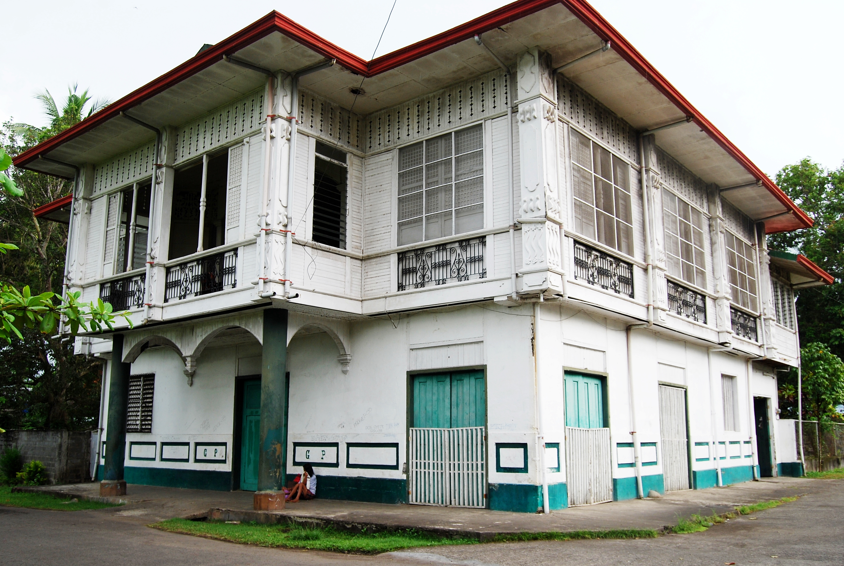 Pelaez Ancestral House Features and Details